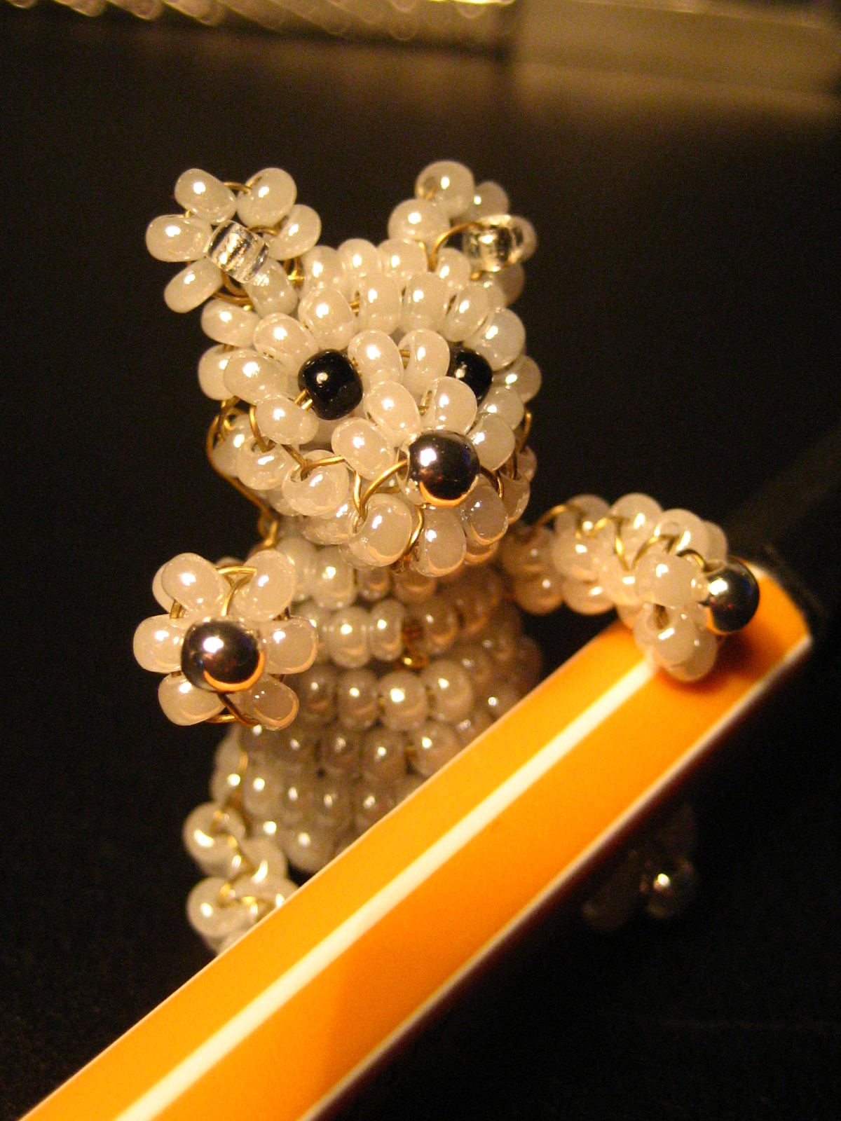 Icebear made of little beads